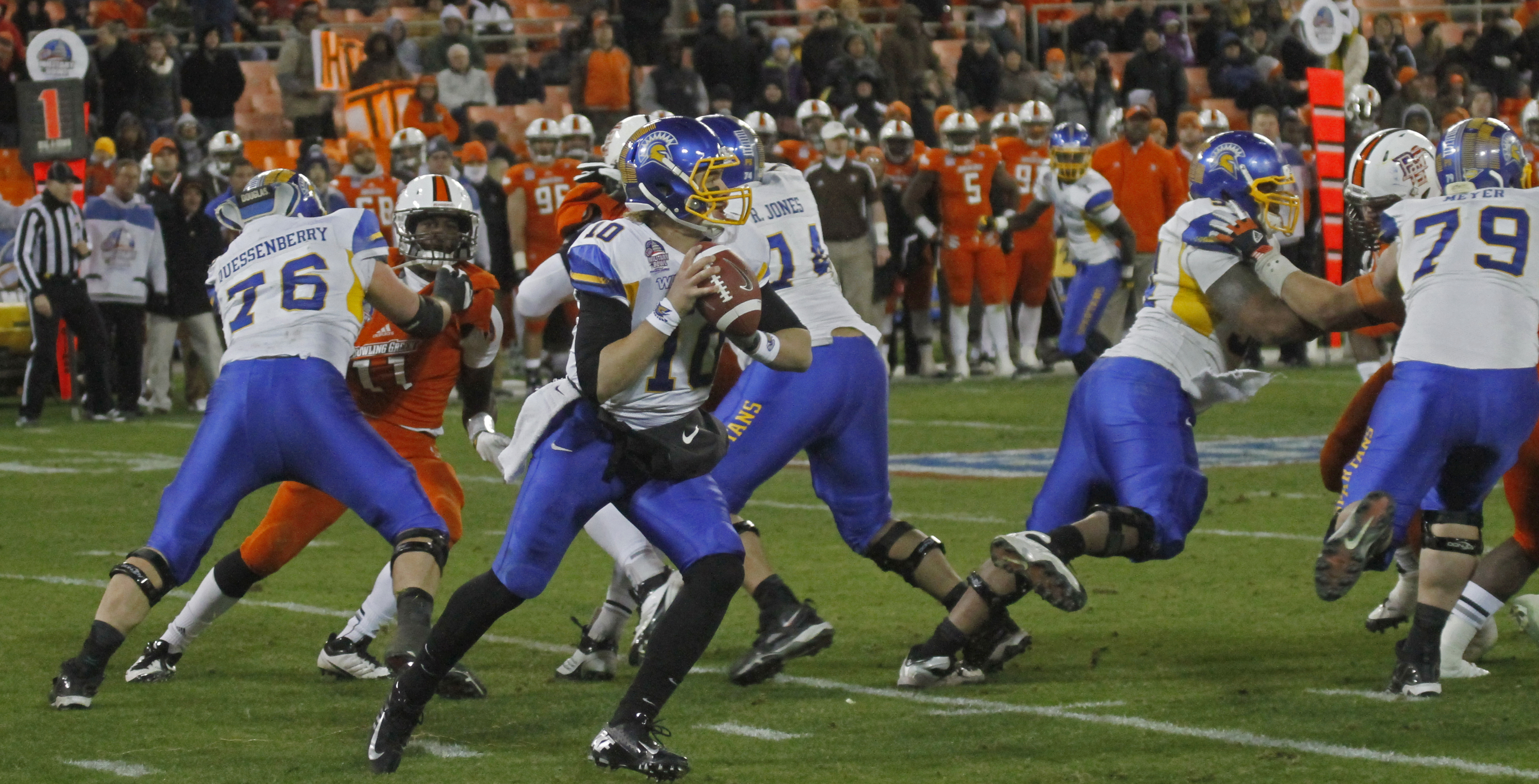 San Jose State QB David Fales drops back to pass against Bowling Green in the 2012 Military Bowl.